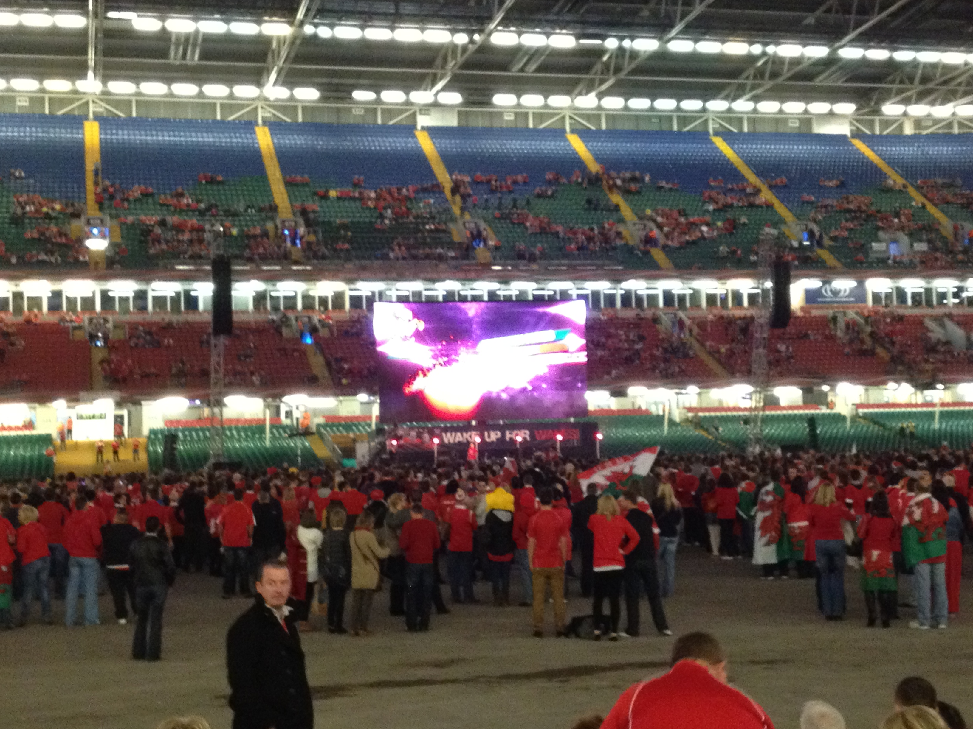 This screen was put up for the Wales v France World Cup Semi-Final